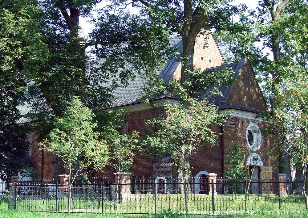 Roman Catholic, Saint John the Baptist church in Cegłów, Poland